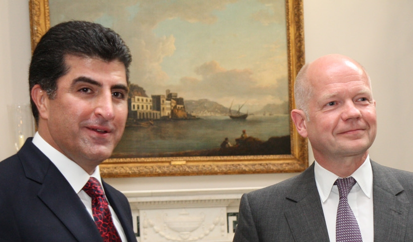 Foreign Secretary William Hague meeting Nechirvan Barzani, Prime Minister of the Kurdistan Region in Iraq in London, 19 May 2014.